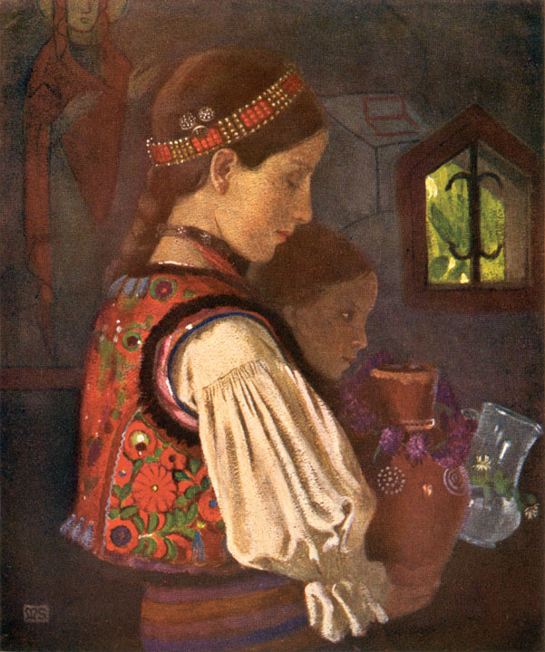 Rumanian Children bringing Water to be Blessed in the Greek Church, Desze